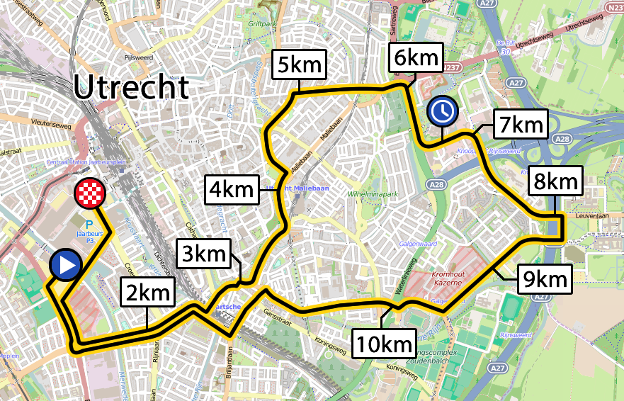 The route of the first stage of the 2015 Tour de France. This map may be incomplete, and may contain errors. Don't rely solely on it for navigation.